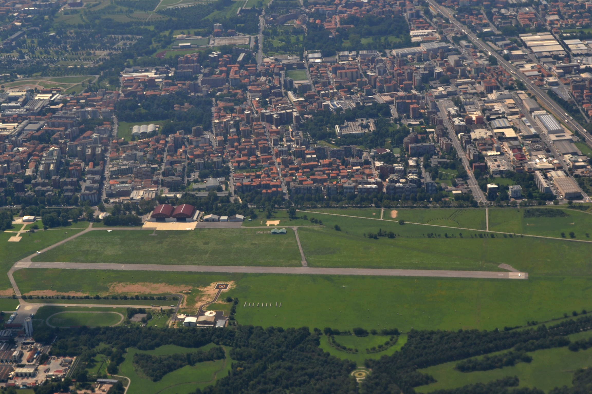 Aerial view of the Bresso Airport (Milan, Italy). The shot was taken from an airliner in flight from the Linate Airport to the London City Airport.